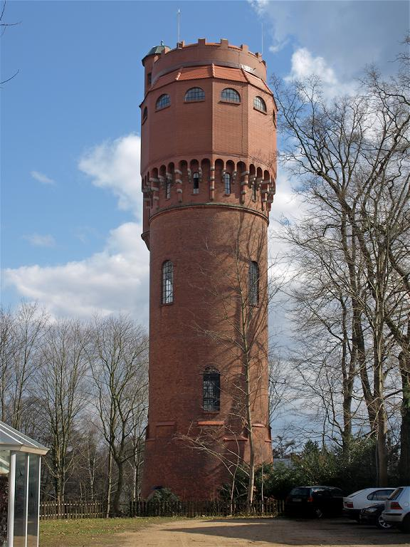 Mölln (Schleswig-Holstein, Germany), former water tower, photo 2010